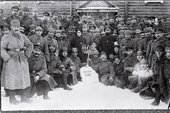 Description: German Jewish soldiers at military Hanukkah celebration Creator/Photographer: unknown Medium: black-and-white reproduction Date: 1916 Persistent URL: Repository: Leo Baeck Institute Parent Collection: Bloch, Hans Call Number: ME 63 Rights Information: No known copyright restrictions; may be subject to third party rights. For more copyright information, click here. See more information about this image and others at CJH Digital Collections.